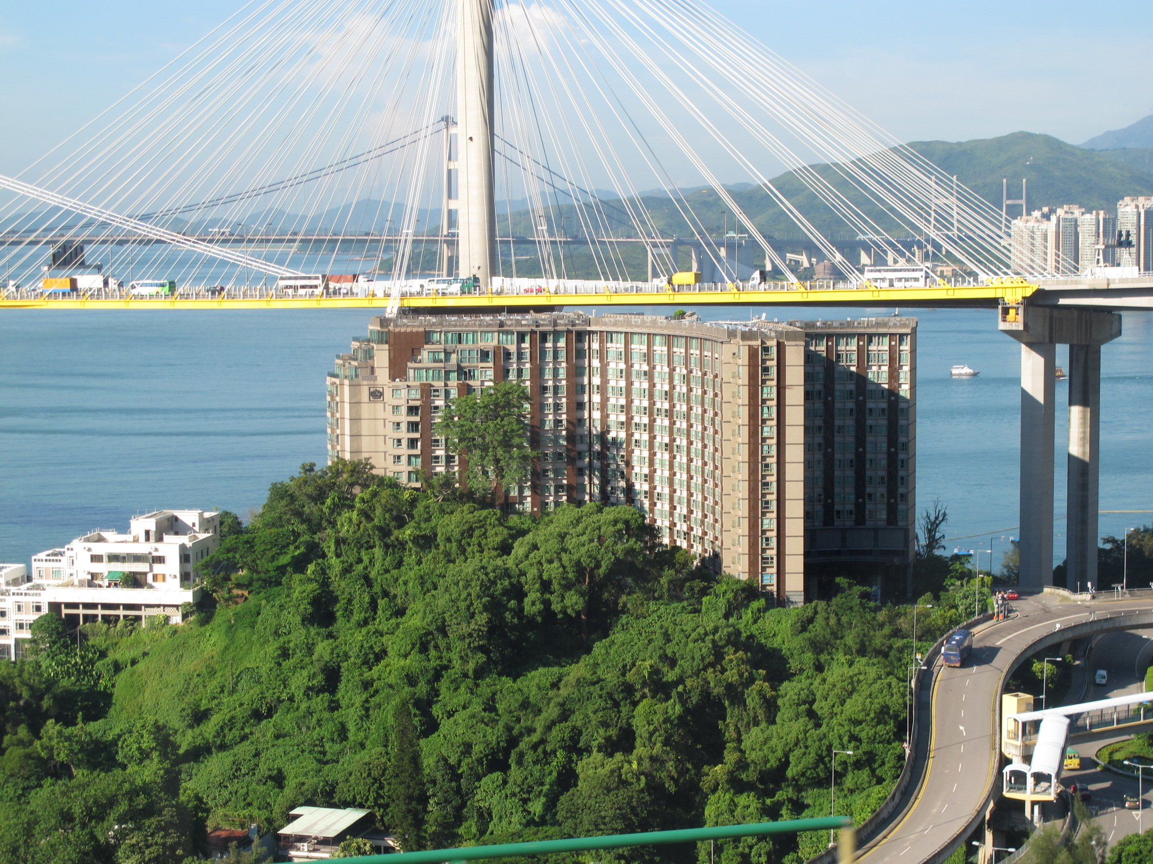 Royal View Hotel